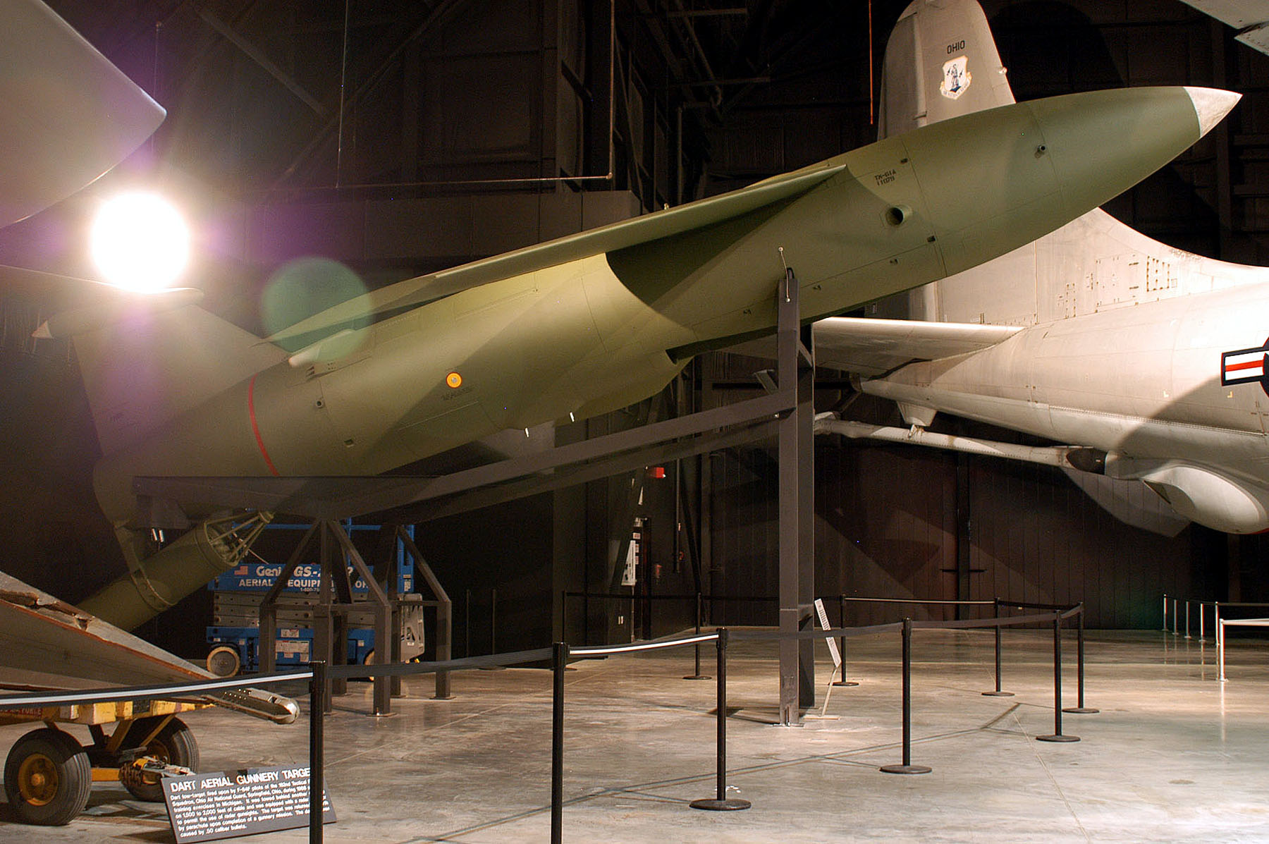 DAYTON, Ohio -- Matador missile on display in the Cold War Gallery at the National Museum of the United States Air Force. (U.S. Air Force photo)